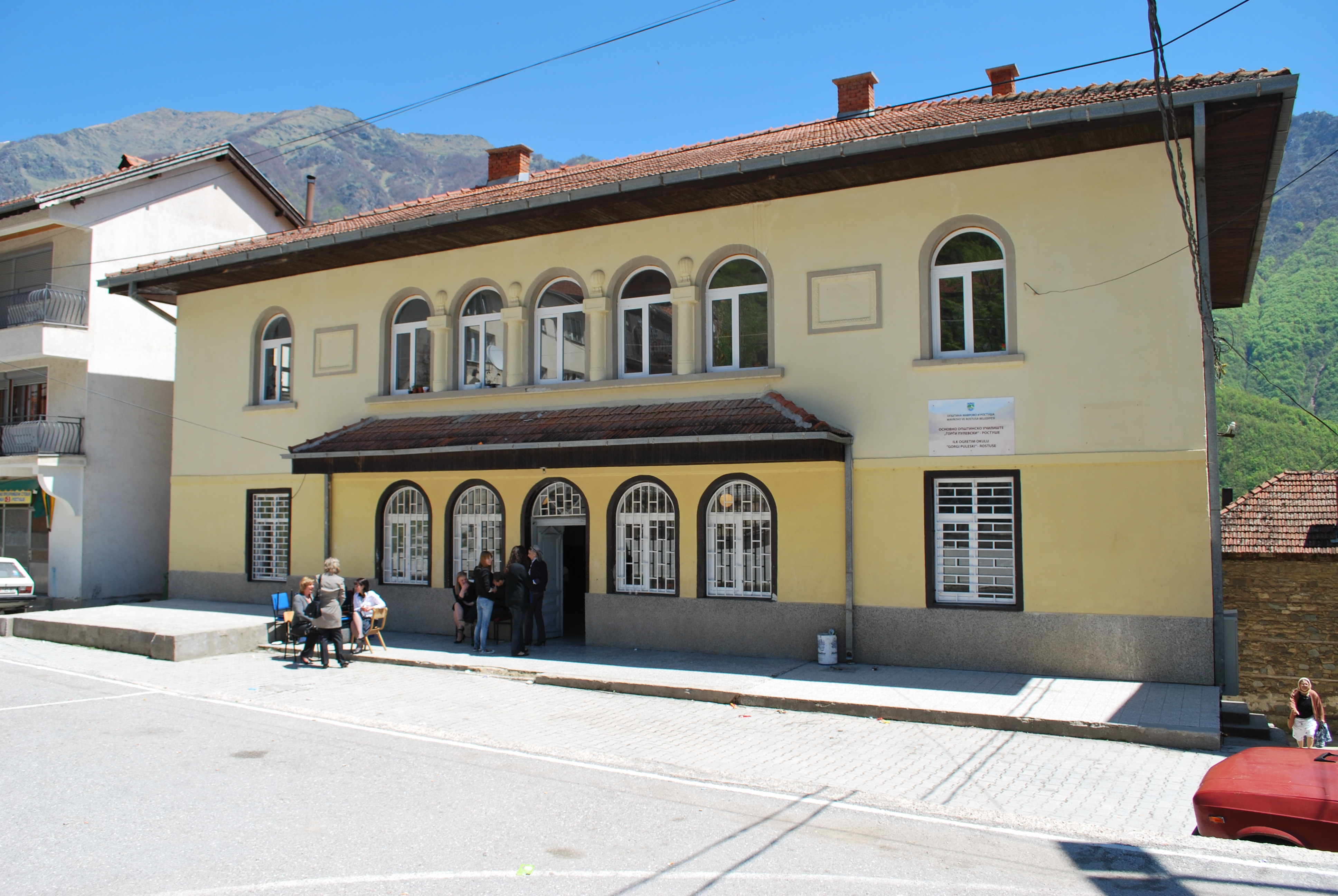 The primary school "Gjorgji Pulevski" in Rostuša, Macedonia